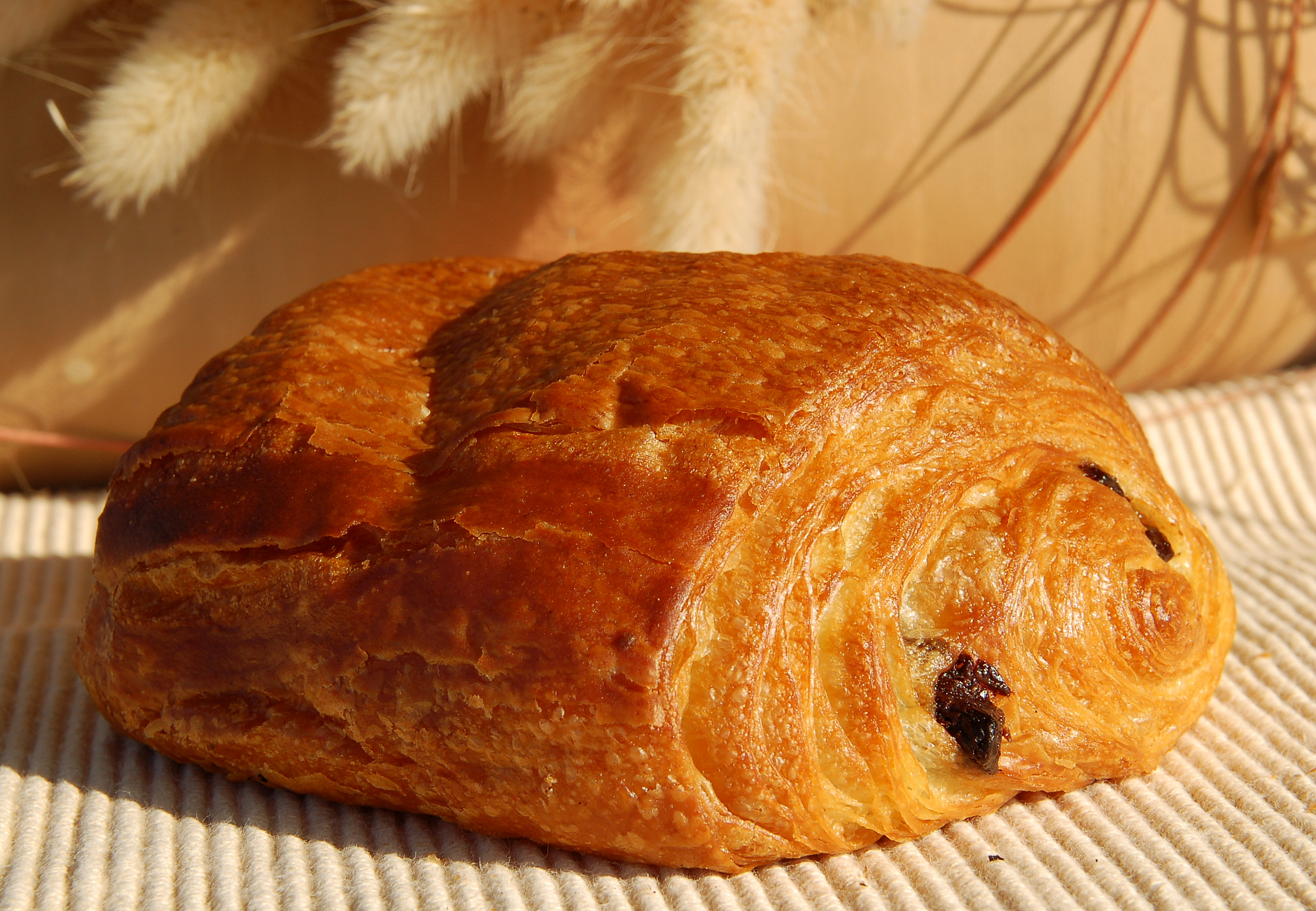 A Pain au chocolat from a Belgian Bakery.